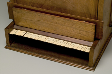 Jevons's logic "piano"